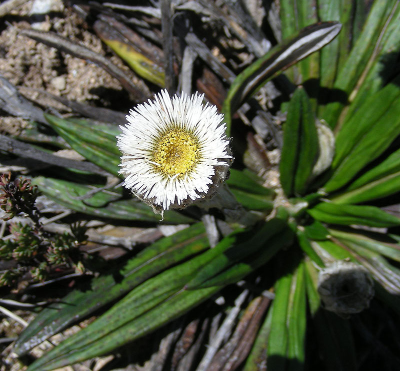 An alpine species, native from Venezuela to Peru. Here high on Volcan Ruiz, Colombia. In context at